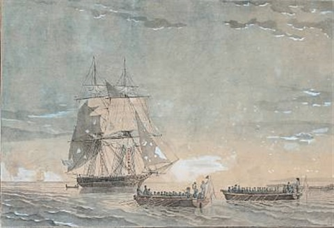 Söe-Lieutnant C, Wulff erobrer med sine 4re Canon-Chalouoper den Engelske Orlogs-Brig, the Tickler... , ca. 1808